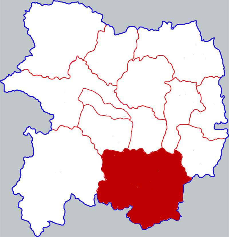 Location of Taibai county in Baoji city, China